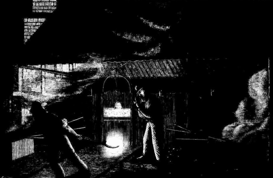 This description is a quote from "This engraving represents the furnace in which the first process for the convertion of cast into wrought iron takes place, and is technically termed puddling, the molten metal being stirred about , or puddled, by which means the particles are brought into contact with the air, this being the agent by which the requisite chemical changes are brought about. The fusion of the cast iron is effected by the flame passing over it, the fuel being thrown into a separate chamber. The stirring or puddling is accompanied by a frizzling sound, and after a certain time the iron arrives at a pasty condition, and is said to have " come to nature. " It is then rolled into balls, one of which is represented in the engraving as being lifted out of the furnace. The puddled balls are successively taken to the tilt hammer, by which the cinder or impurity is squeezed out, and hammered to a convenient shape for passing through the rolls, which draw them out into long flat bars called puddled bars"